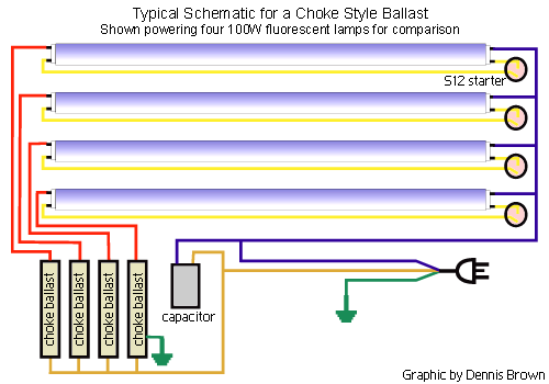 Typical wiring diagram showing the configuration of four lamps using traditional European style choke ballasts.